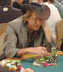 cropped image of Jim Meehan playing in the 2005 World Series of Poker.